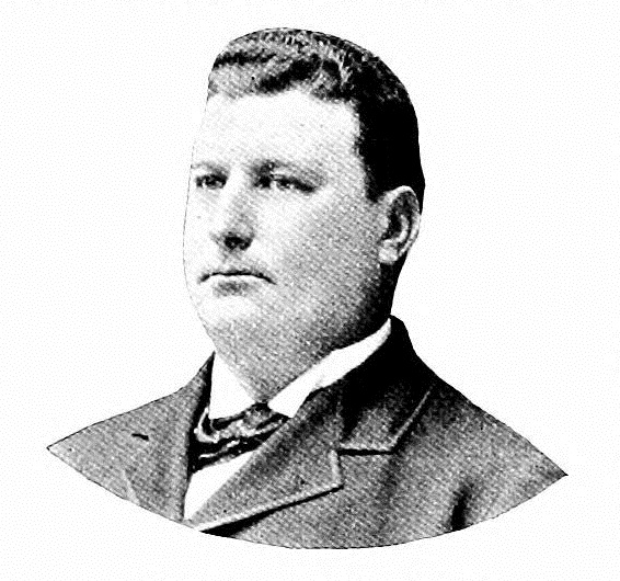 Portrait of New York assemblyman Patrick J. Kerrigan (1864-1895)